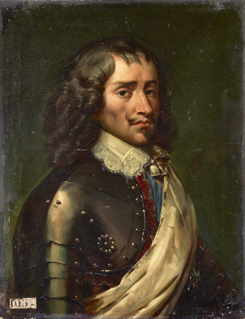 ArtistUnknownTitle